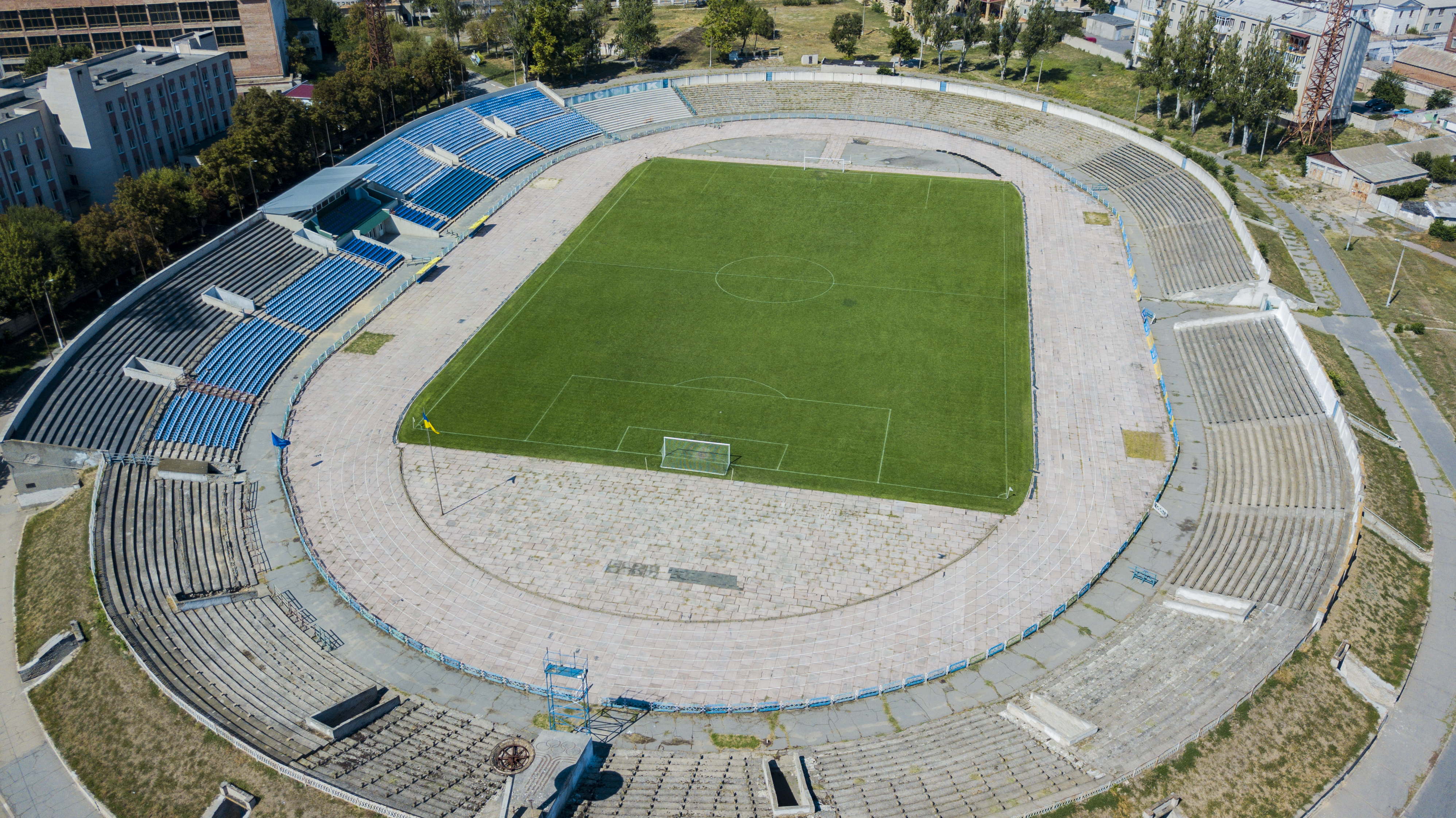 Kristall Stadium in Kherson